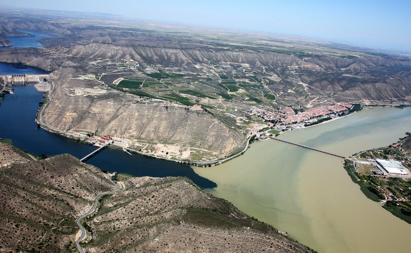 Aereal view of Mequinenza.